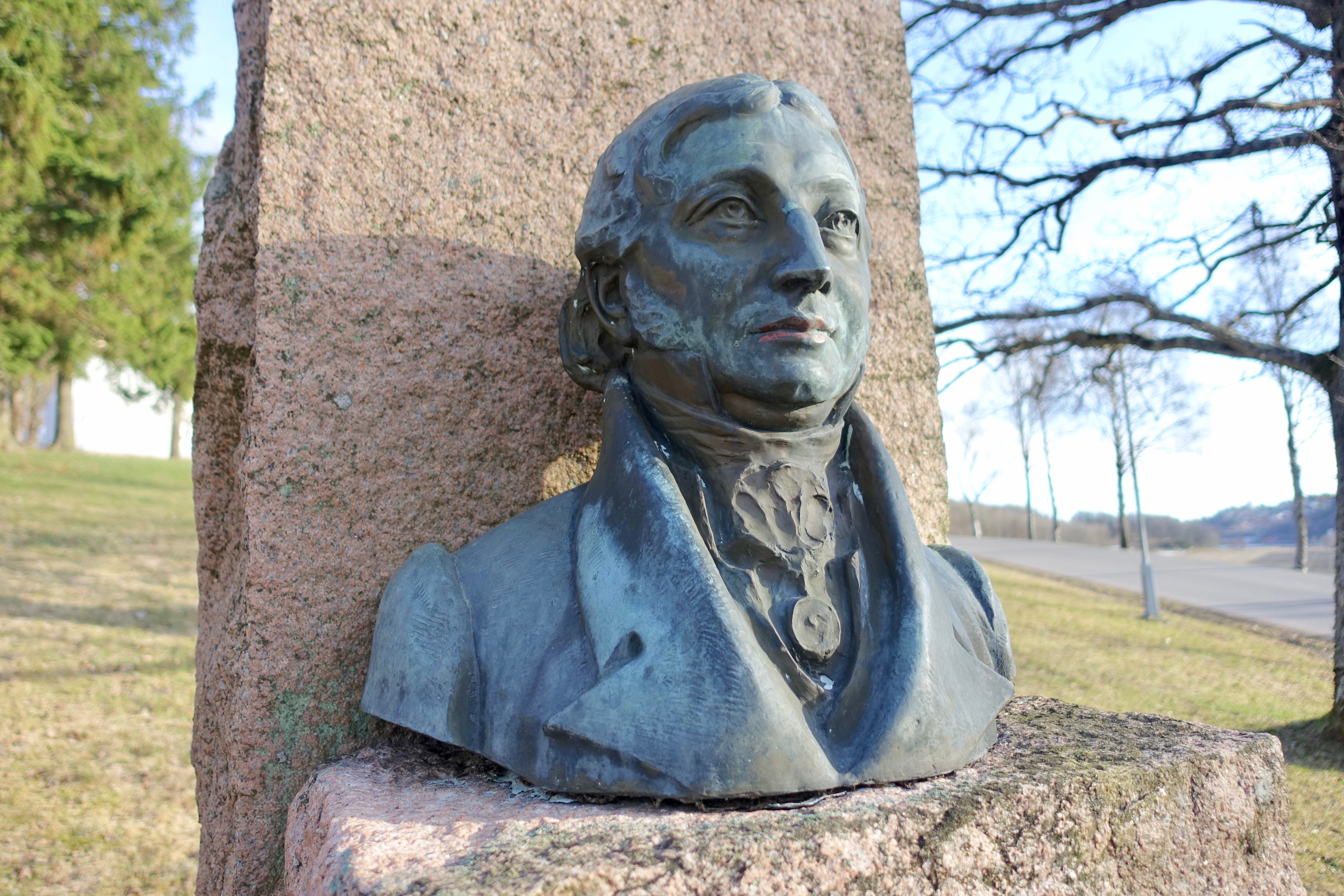 Monument of Norwegian politician Jacob Sverdrup (1845 – 1899) at Melsom videregående skole in Melsomvik near Tønsberg, Norway. Bust by Gustav Lærum. Erected 1925. Photo 2019-03-25